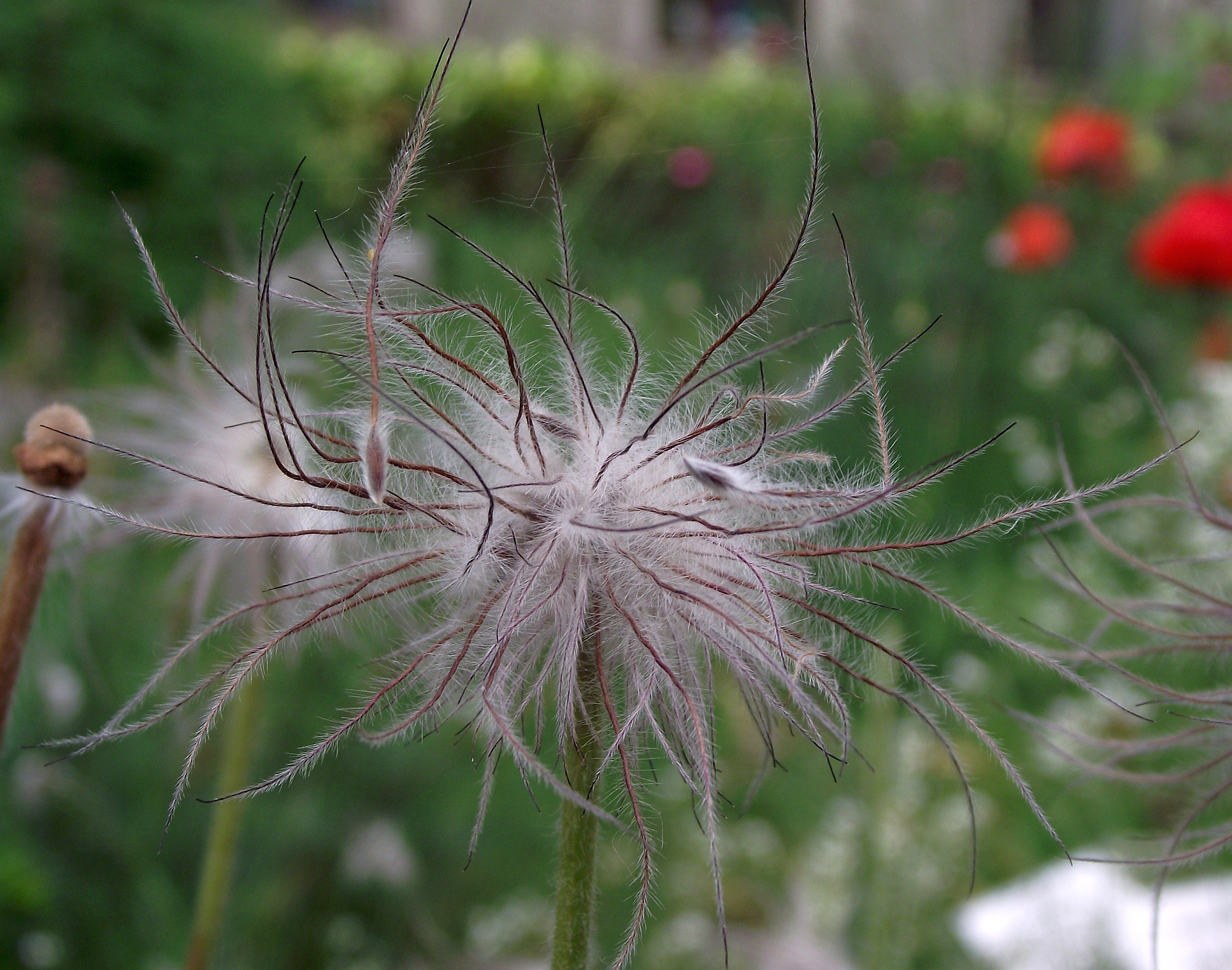 Pulsatilla vulgaris (pasque flower, common pasque flower, Dane's blood) belongs to the buttercup family (Ranunculaceae), native to western, central and southern Europe. -Inflorescence/fruits